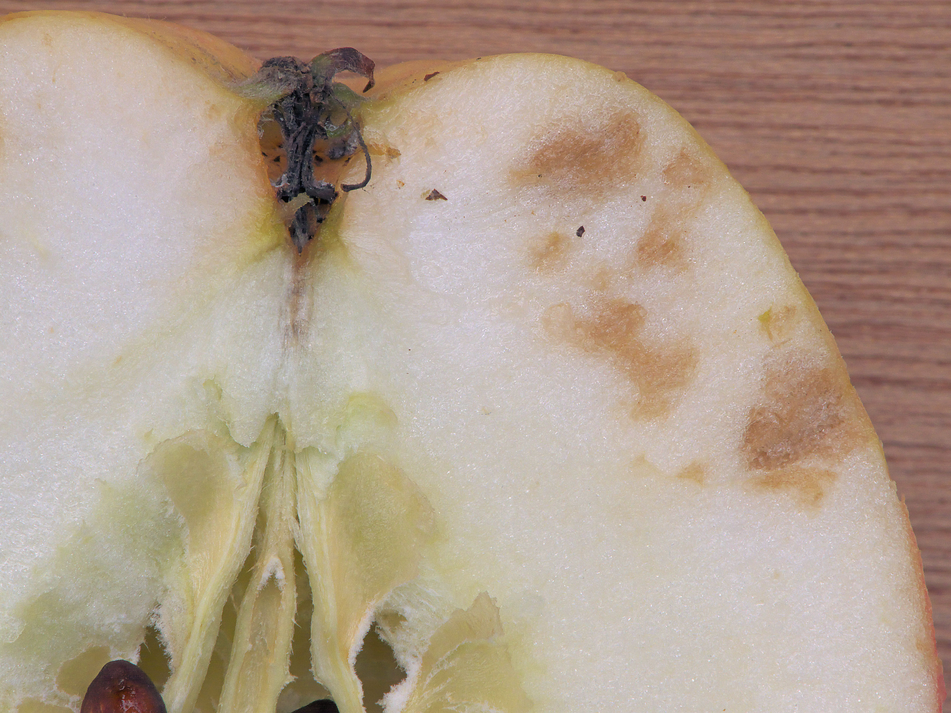 Malus domestica 'Summerred' bitterpit